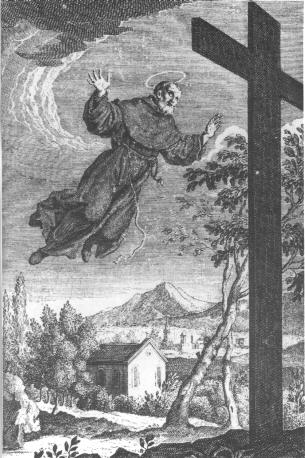 Saint Joseph of Cupertino, 18th century engraving